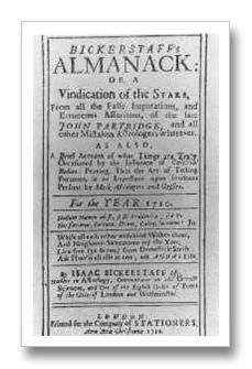 "Bickerstaffs Almanack - A Vindication of Isaac Bickerstaff"